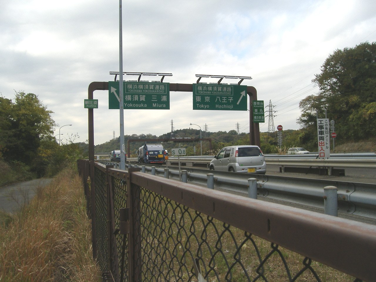 Yokohama Yokosuka Road, Kamariya JCT (Yokohama, Japan)